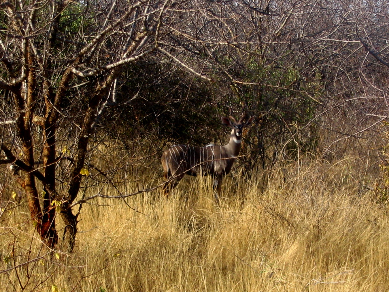 Tragelaphus imberbis australis (Southern Lesser Kudu) male in Tsavo West National Park, Kenya. The male sex can be identified by the grey colour of individuals.